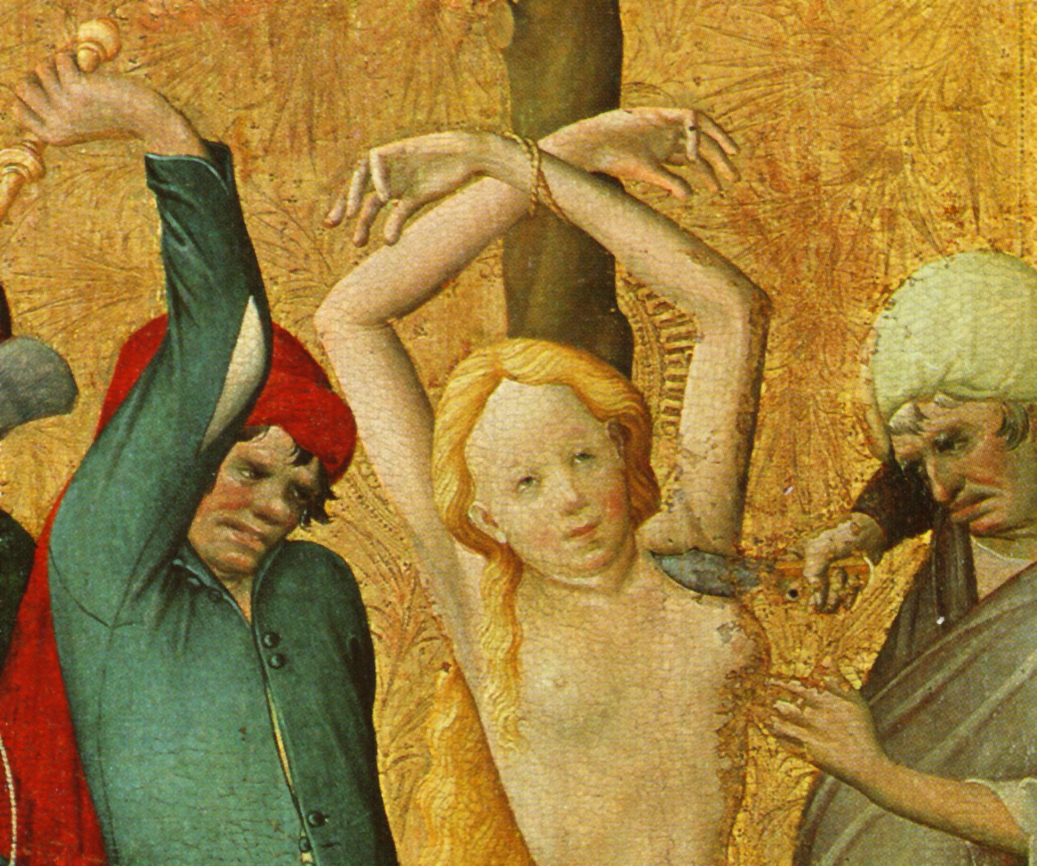 Detail of sixth painting in Barbara altar by Master Francke